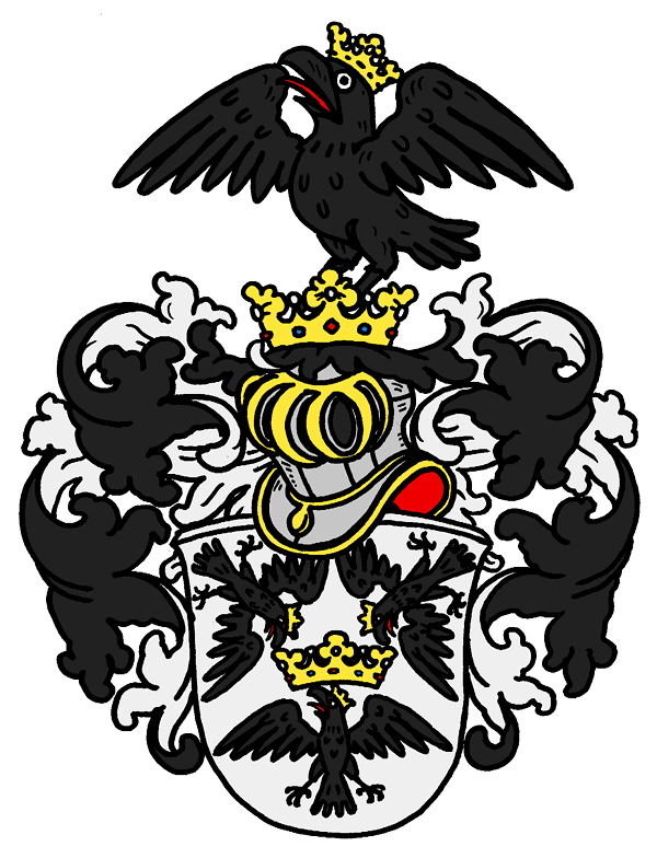 Eggenberg Princely Coat of Arms